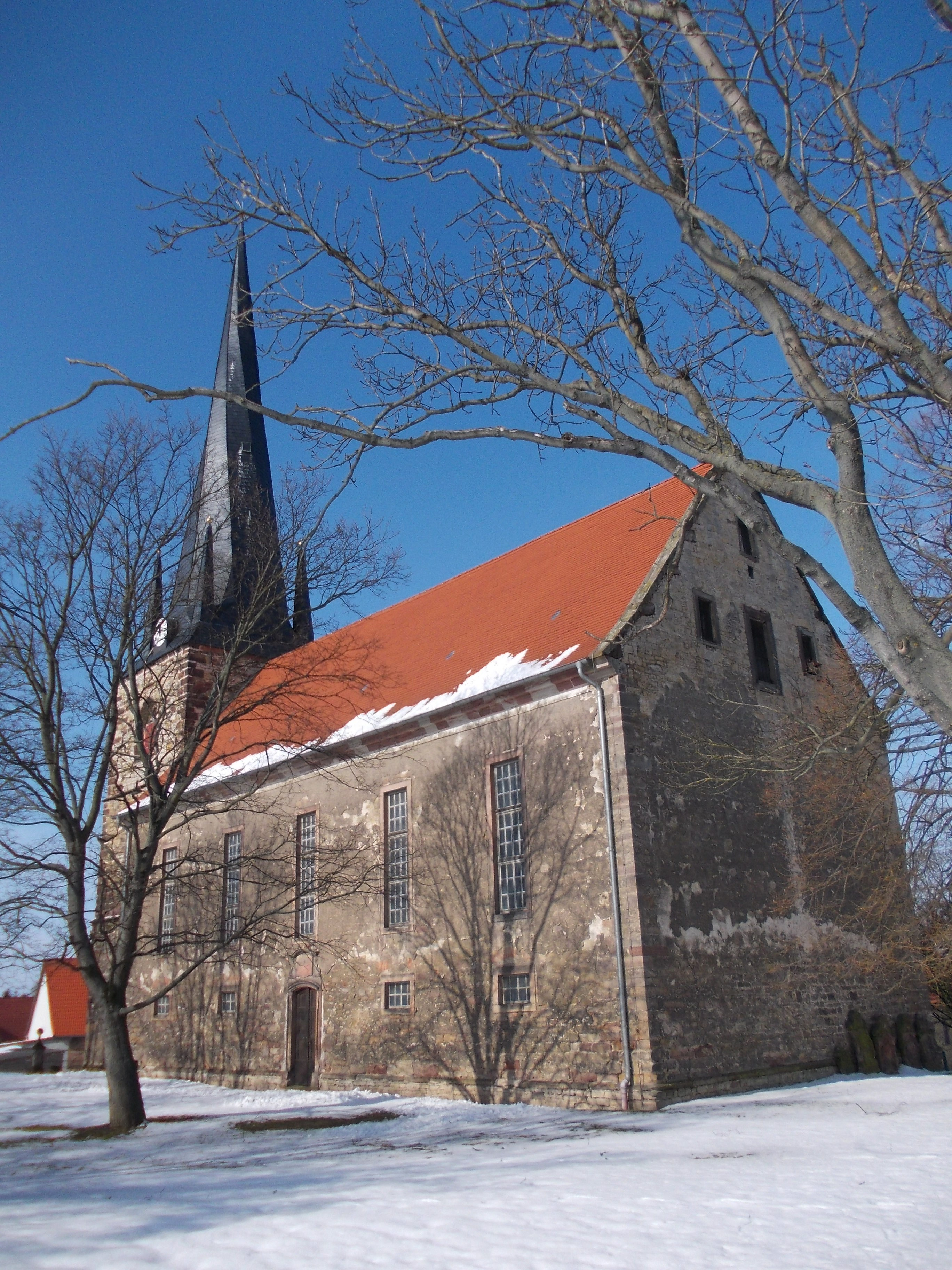 Saint Wenceslaus church in Barnstädt (district of Saalekreis, Saxony-Anhalt)